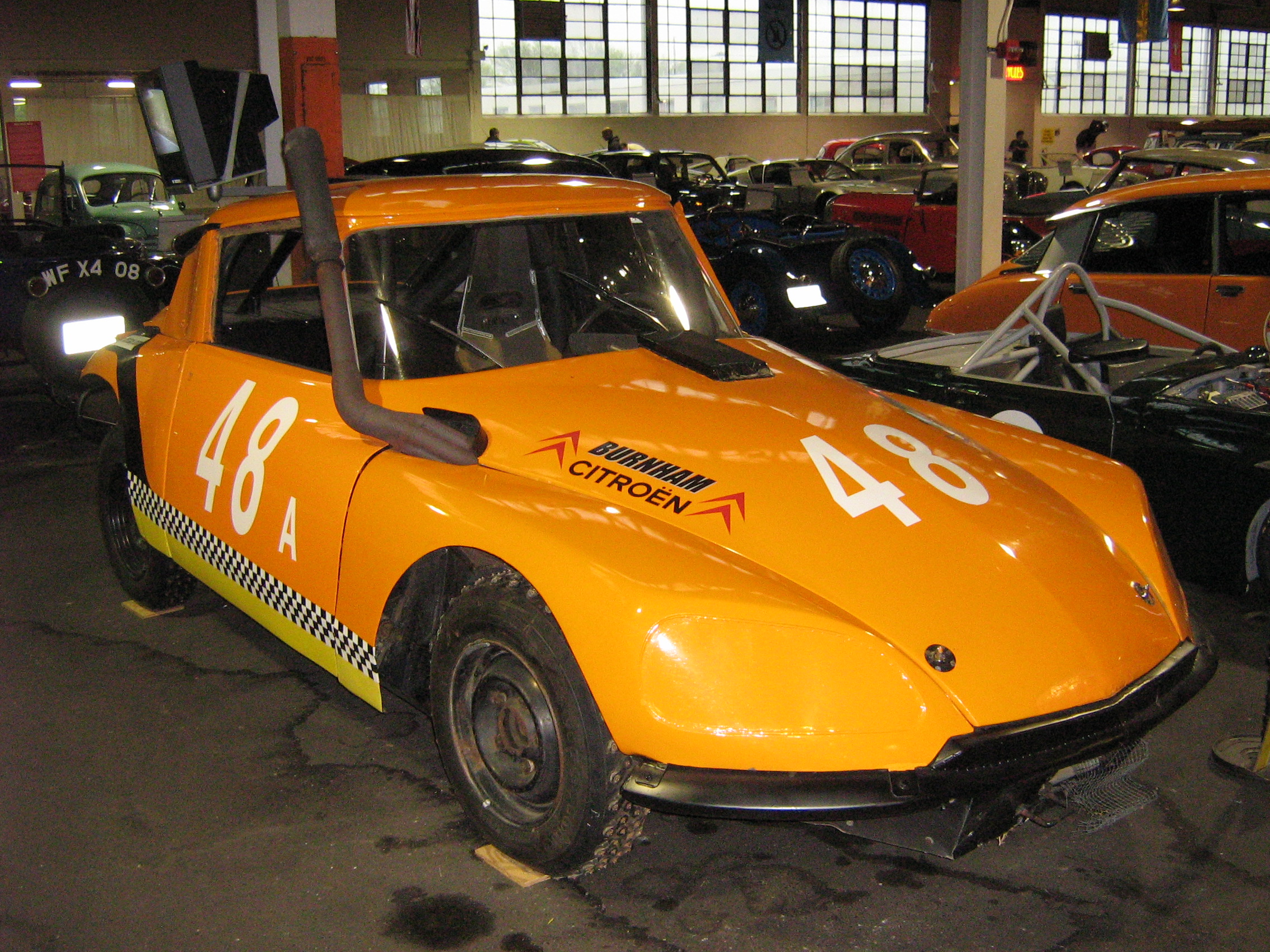 1966 Citroën DS Ice